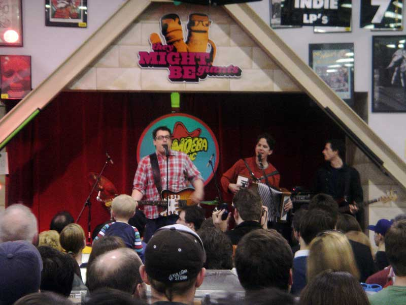 They Might Be Giants free show at Amoeba Music in Hollywood, CA on March 25th, 2005. A children's show to promote their new DVD Here Come the ABCs. From left to right, John Flansburgh, John Linnell, and Danny Weinkauf. Photograph taken with a Sony Cyber-shot T1 camera.